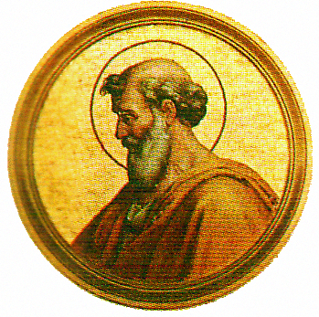 Portrait of Pope Boniface I un the Basilica of Saint Paul Outside the Walls, Rome